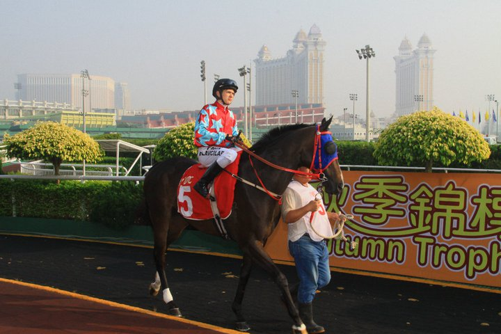 Turkish Jockey Yasin Pilavcılar